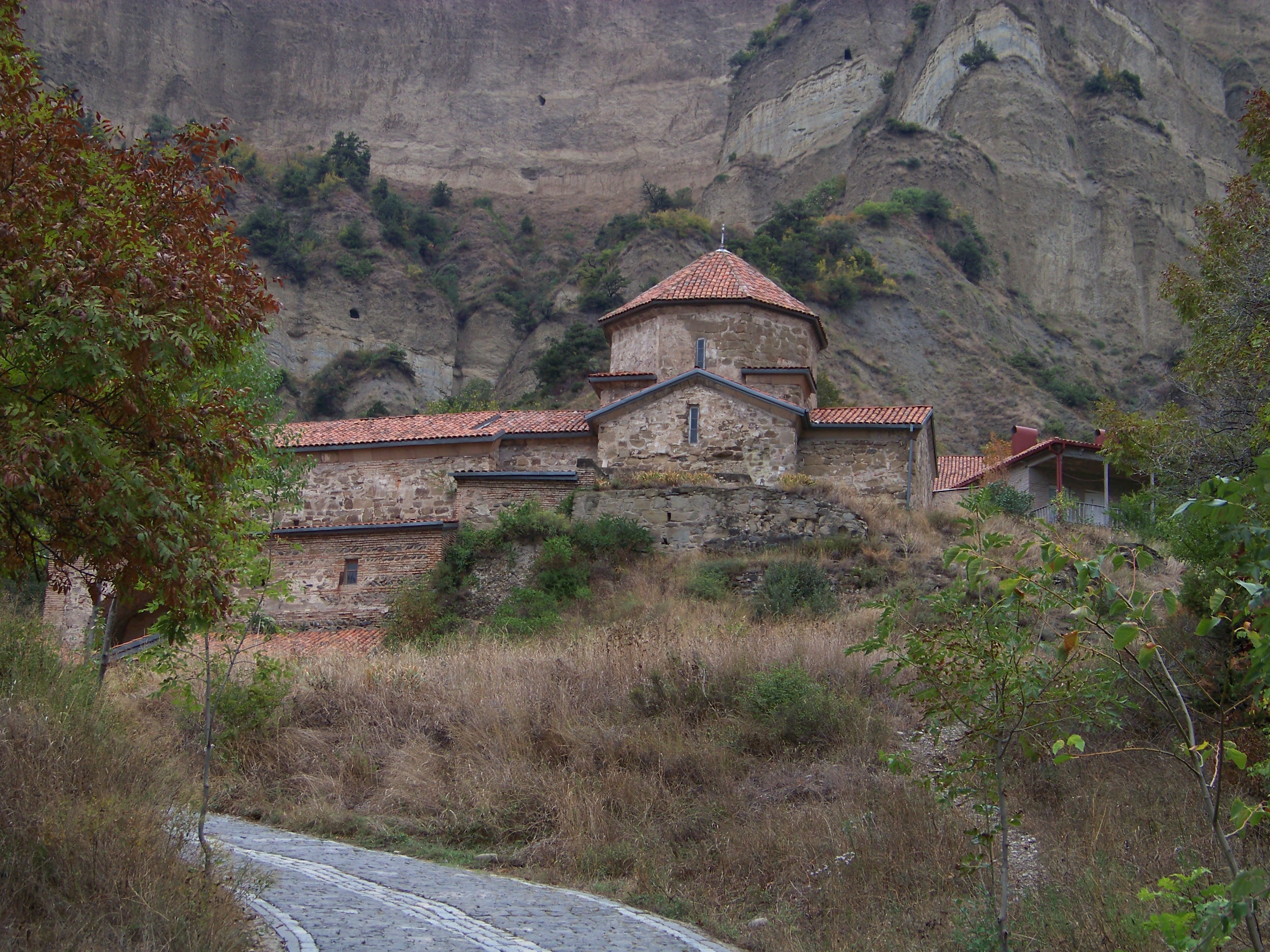 Shiomgvime monastery